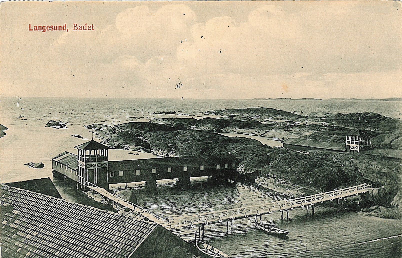 Badehus